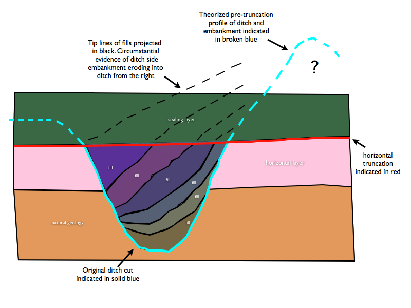 graphic